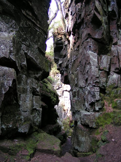 Green Knight, Lud's Church The top end of this intriguing gritstone defile, thought to have been created by a landslip. The profile of the "Green Knight" stands out against the sunlit rock behind.